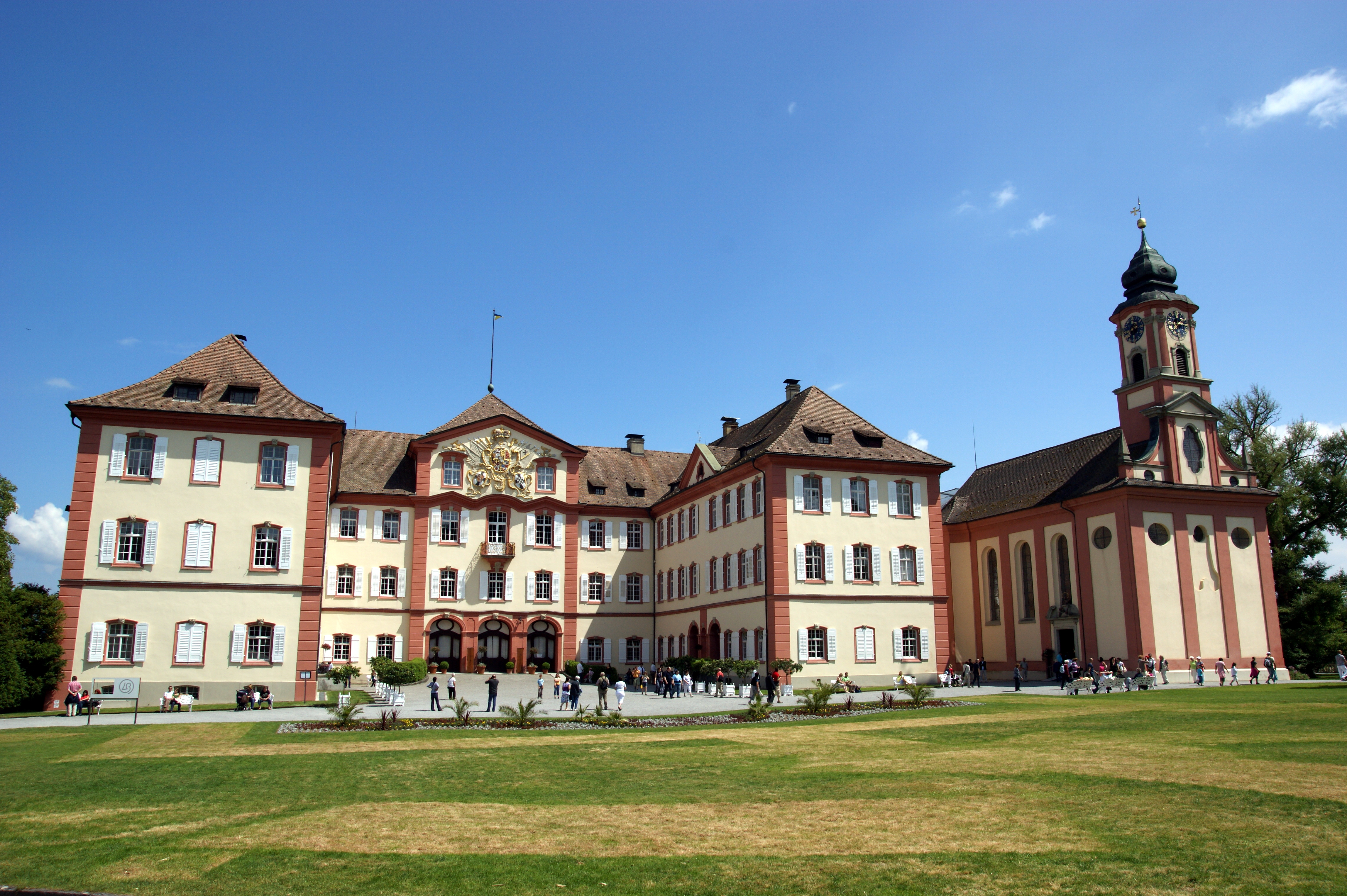 Island Mainau, Lake Constance, Germany. Castle and church.